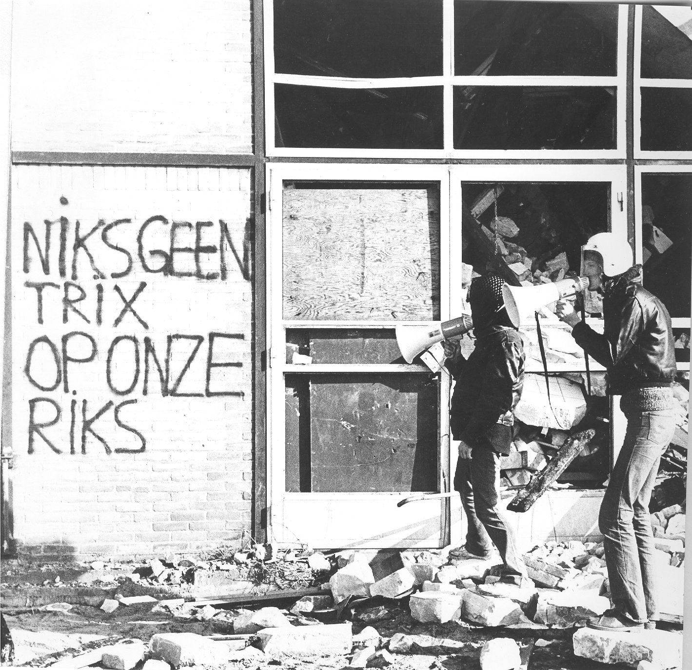 acoustic punk band "The Megaphones" first single cover photo (alternative picture) for their single Nix geen Trix op onze riks / No queen Beatrix on our coin